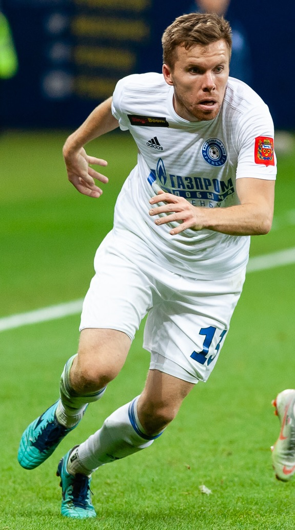 Sergei Terekhov with FC Orenburg in a game against FC Rostov.